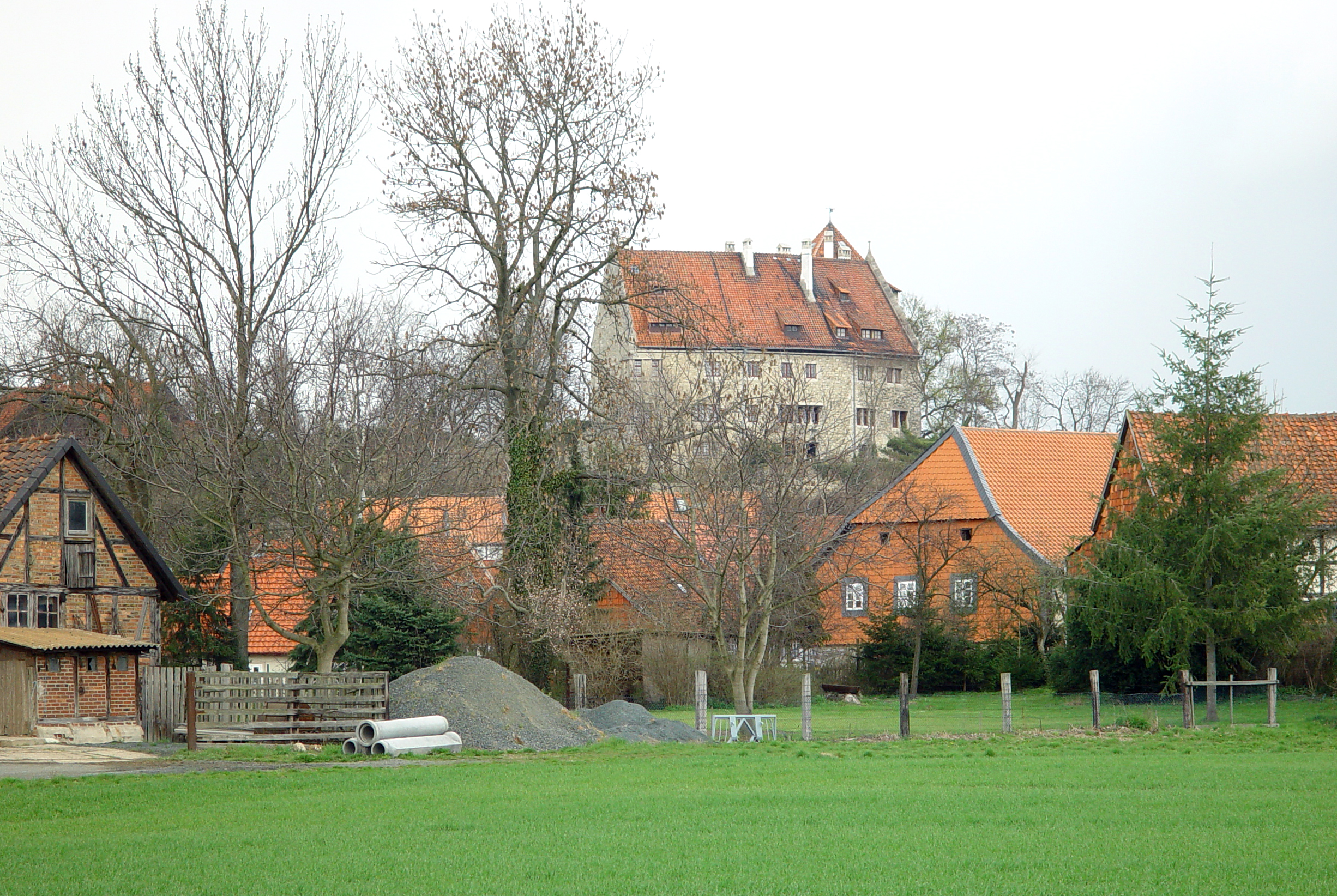 Beschreibung: Hornburg is a city located in Lower Saxony, Germany. Aufnahmedatum: 9. April 2005 Fotograf: ArtMechanic